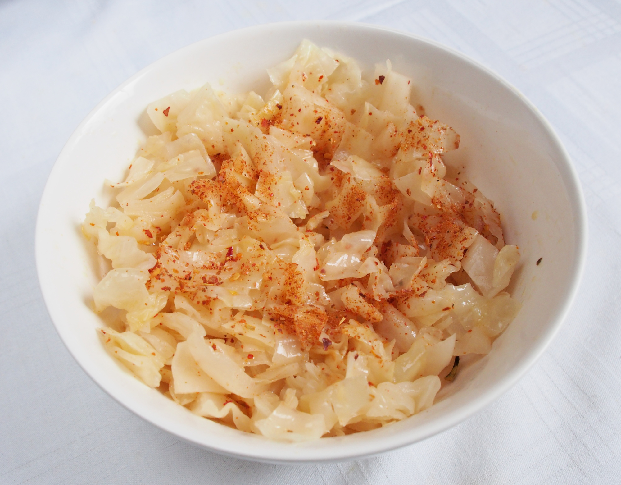 Salad of Serbian cuisine; sauerkraut with melted pepper.Српски (ћирилица): Салат од киселог купуса са паприком.